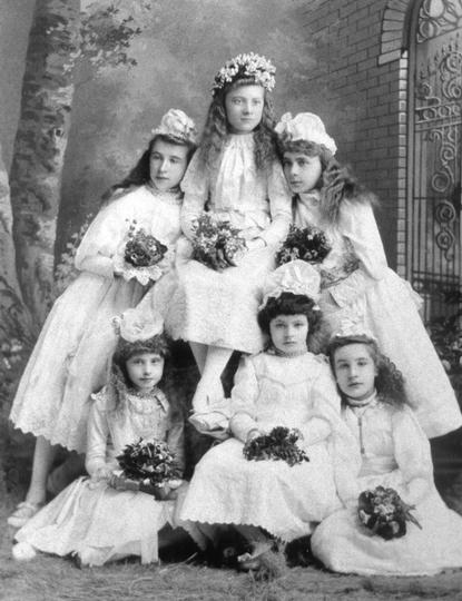 The May Queen of New Westminer's annual May Day c. 1887. British Columbia, Canada. The May Queen and her court. Girl at top left is Adelaide Ewen born in 1877. She was the daughter of Alexander and Mary Rogers Ewen. Isabel Macmillan Latta, the donor of the photo, was the daughter of Isabella Ewen whose sister is in this photo.